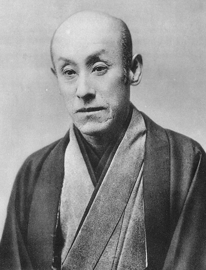 Portrait of Onoe Kikugoro V (五代目尾上菊五郎, 1844 – 1903)